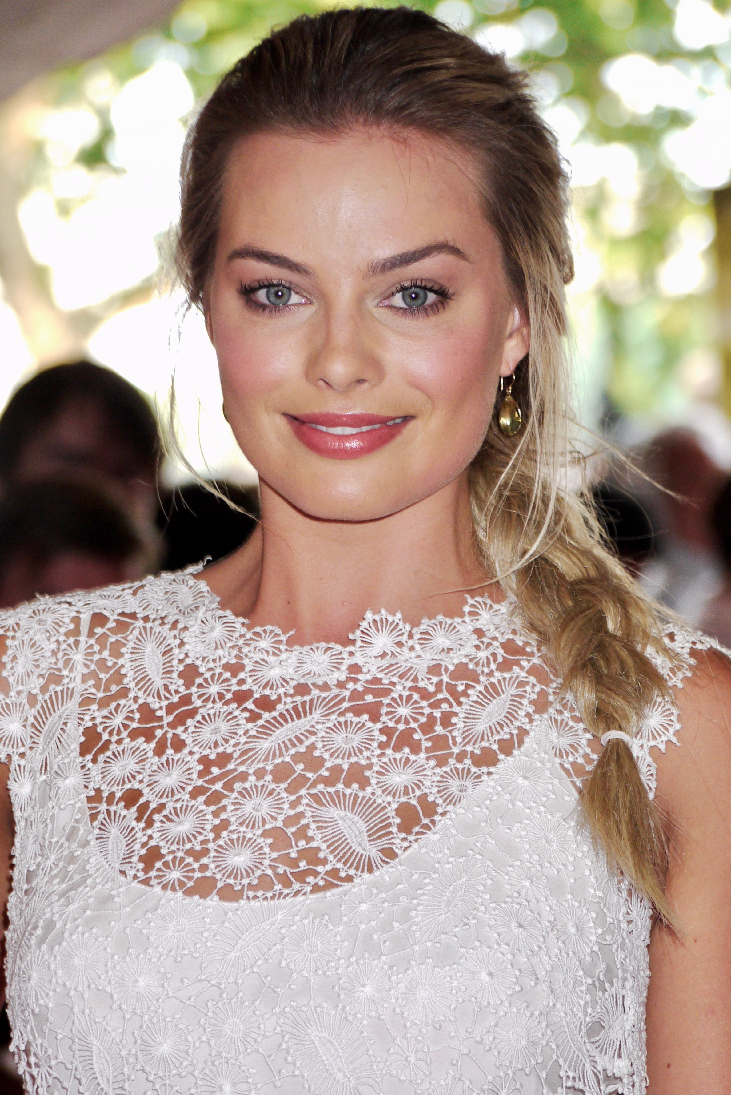 Margot Robbie at Somerset House in 2013